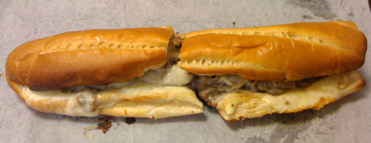 12 inch Cheesesteak with Provolone Cheese - extra cheese on top - Amorosso roll (cheesesteak from Larry's Steaks)